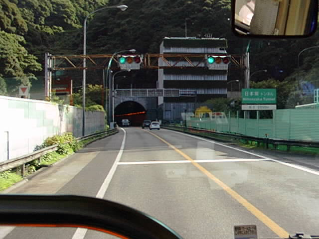 Tomei Expressway Nihonzaka Tunnel